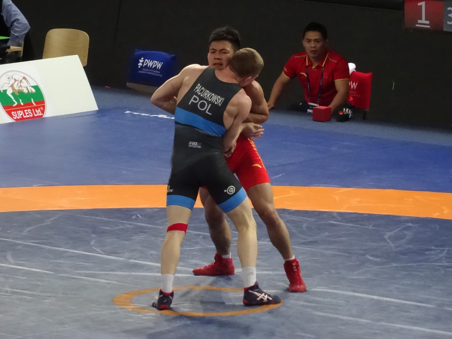 U-23 World Wrestling Championship Bydgoszcz 2017. Finals in men's greco-roman style